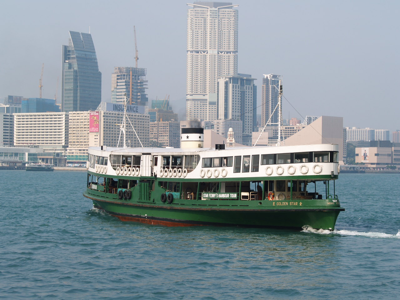 IMO number : 8951384 Name of ship : GOLDEN STAR Gross tonnage : 352 Type of ship : Passenger Ship Year of build : 1989 Flag : Hong Kong, China Status of ship : In Service